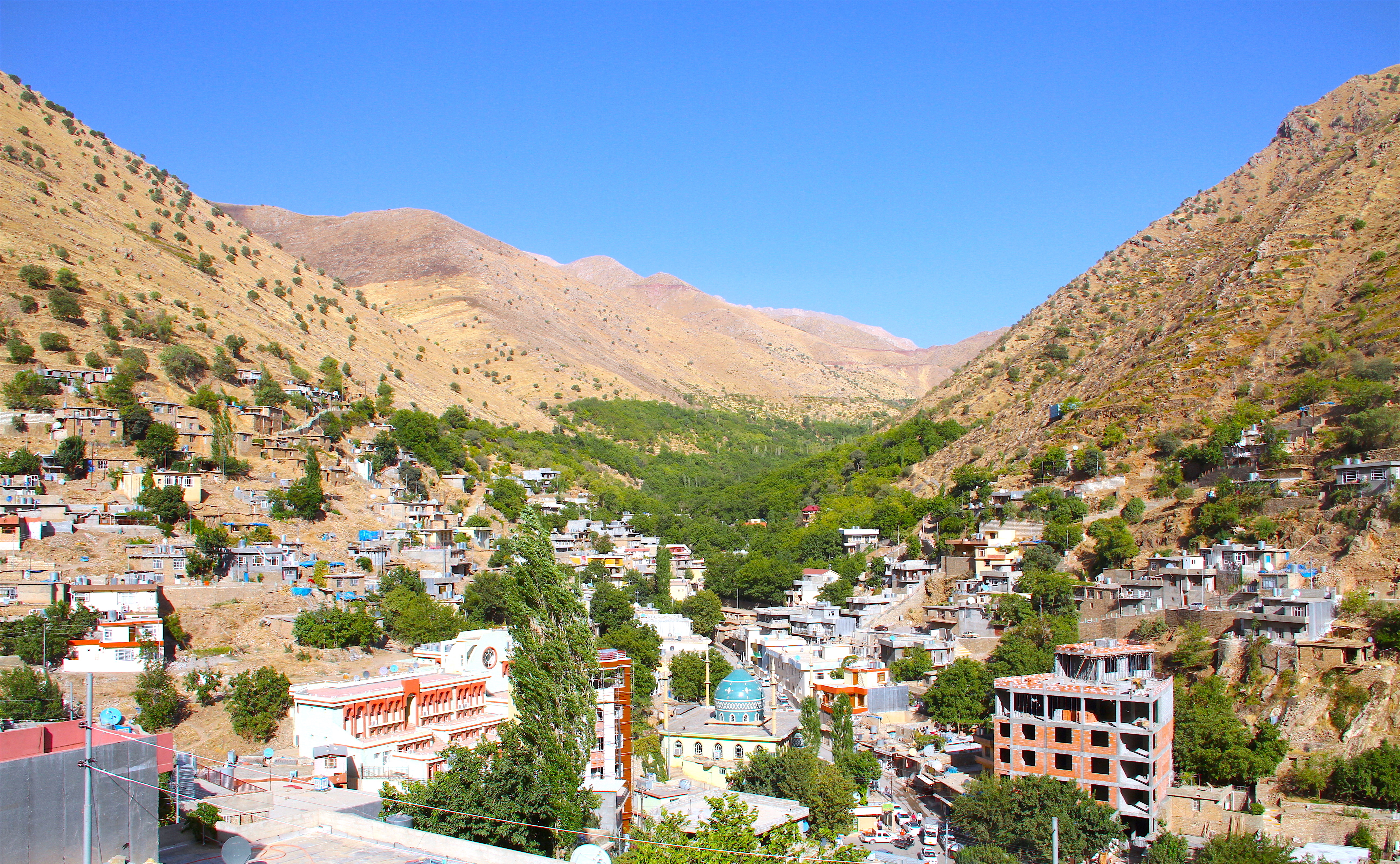 Tawela - Kurdish Village in Hawraman - Southern Kurdistan - Iraq - 2016 - Diyar Mohammed Photography2.jpg